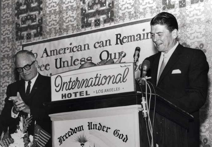 Ronald Reagan speaks for presidential candidate Barry Goldwater in Los Angeles in 1964.